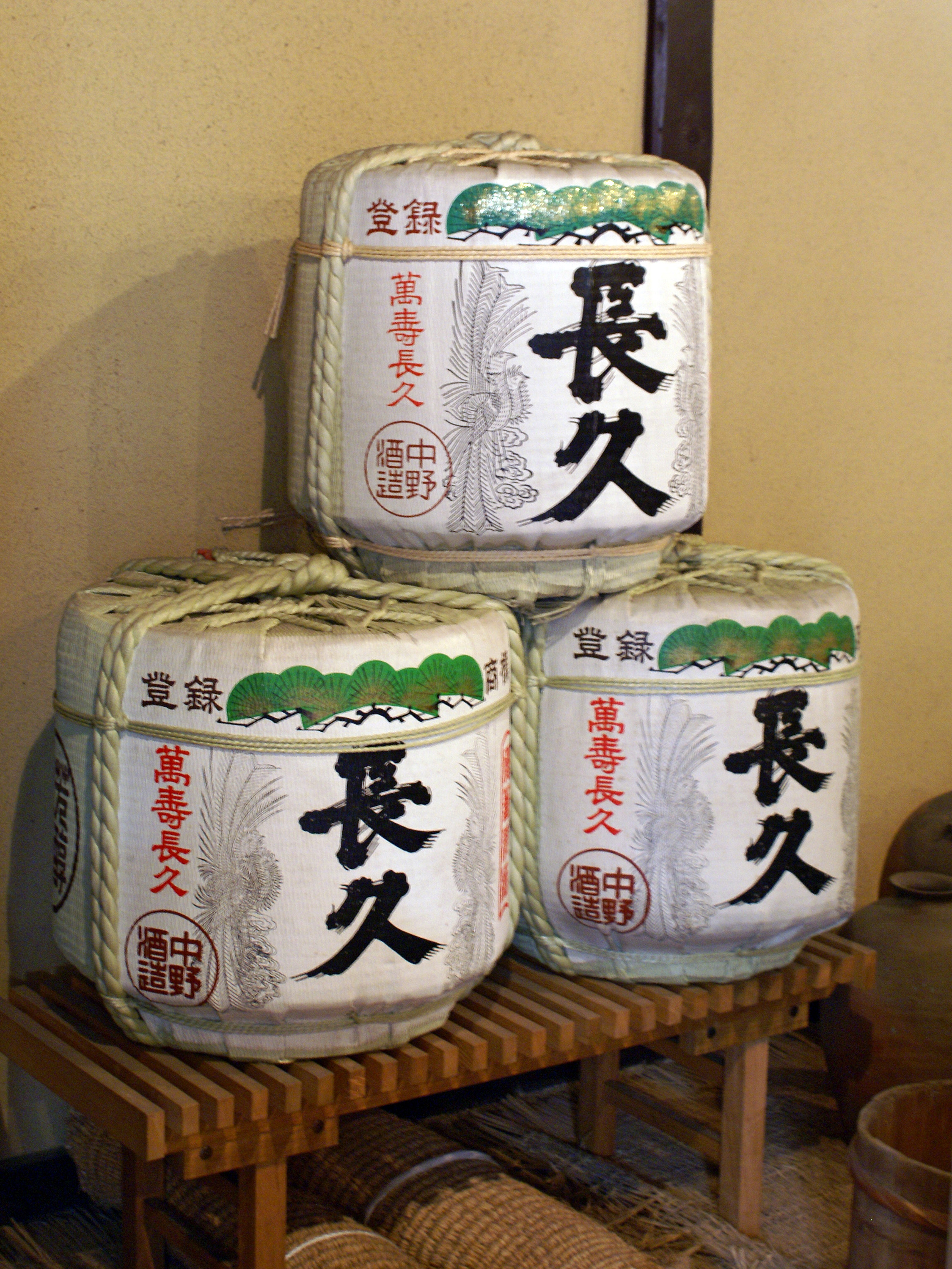 Chokyutei in Kainan, Wakayama prefecture, Japan